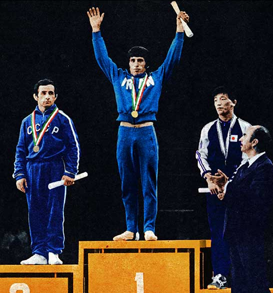 52 kg podium at the 1973 World Freestyle Wrestling Championships in Tehran